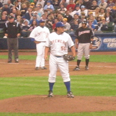 Jared Fernandez of the Milwaukee Brewers on the mound at Miller Park during a game in 2006